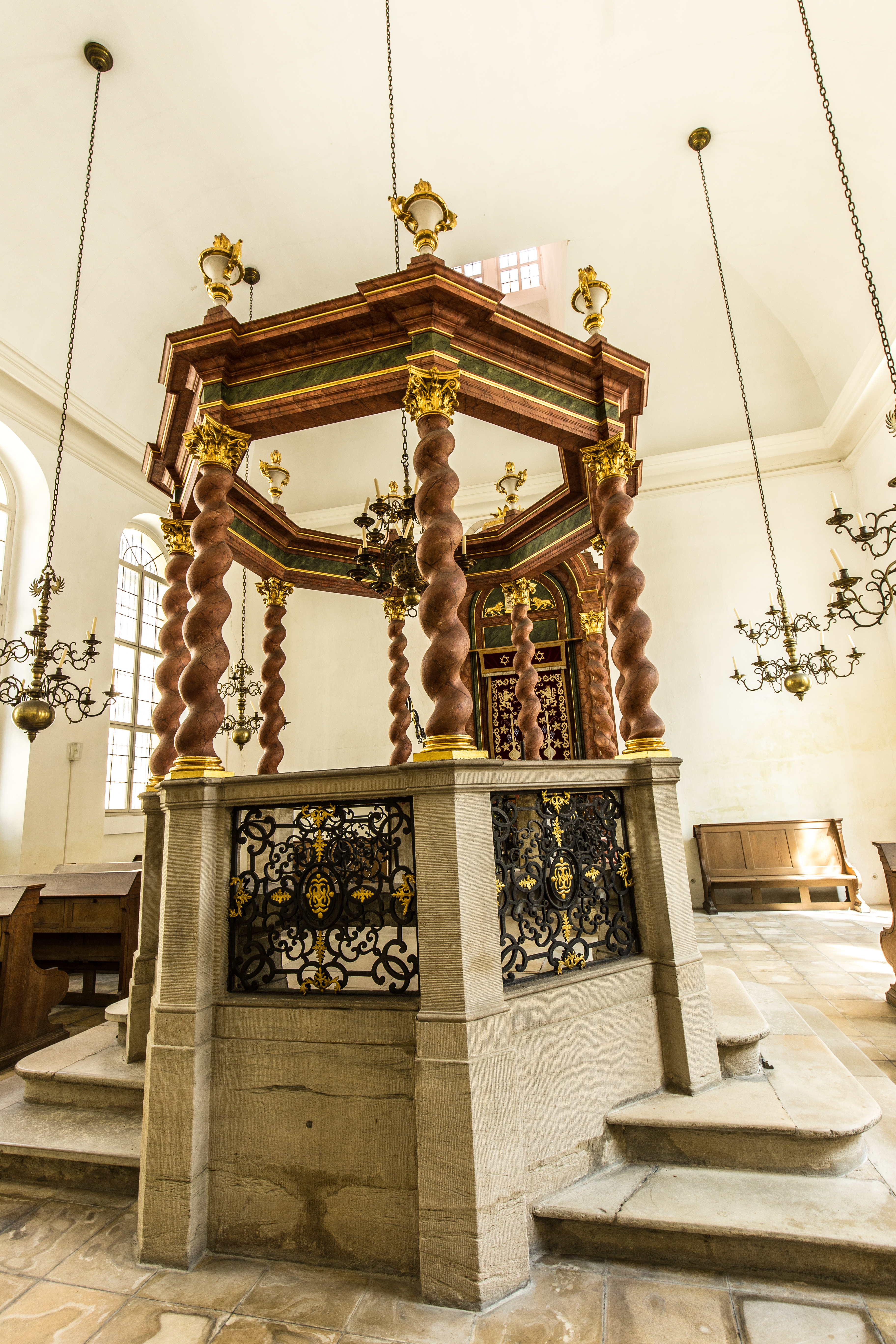 This is a photograph of an architectural monument.